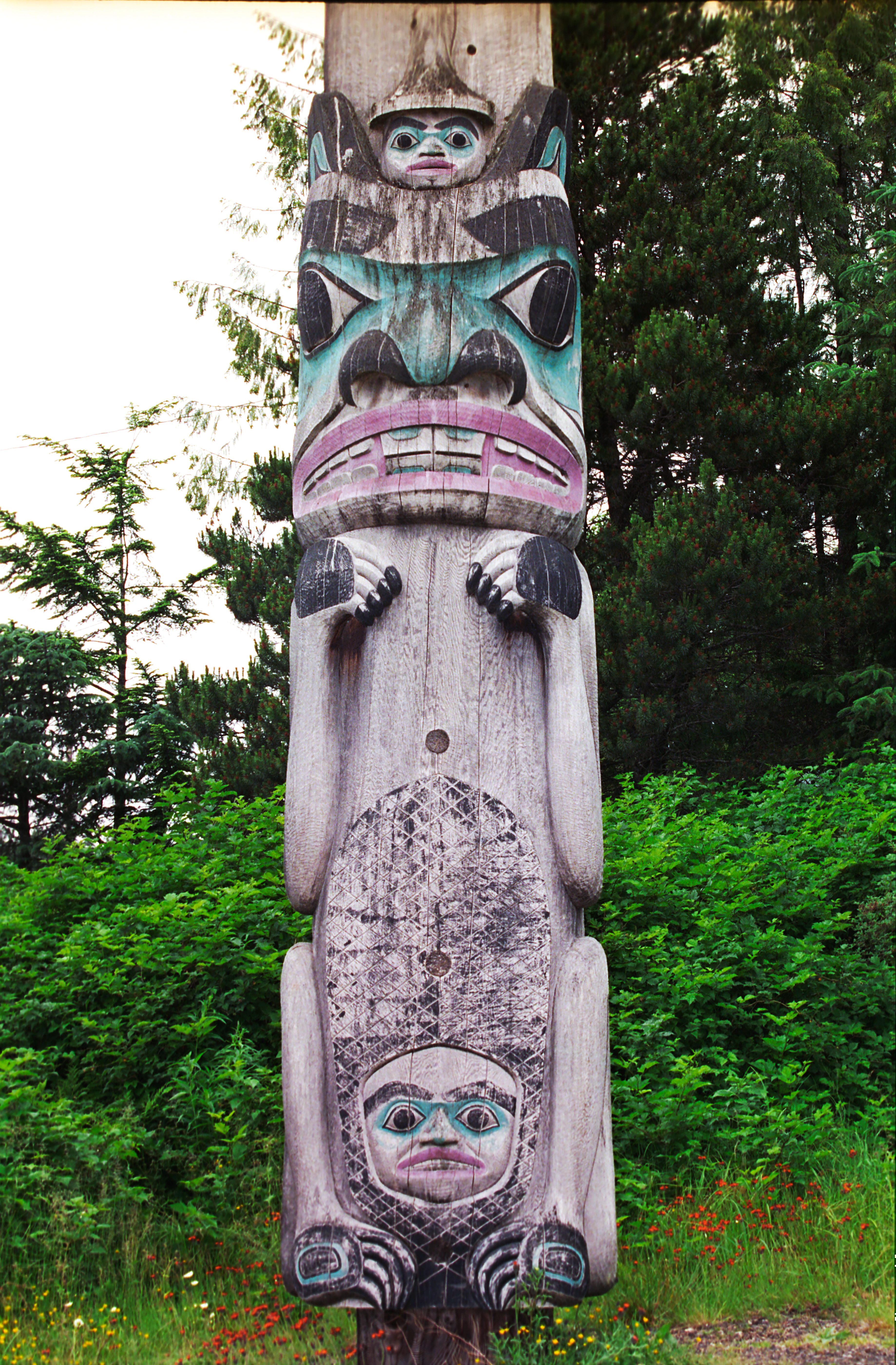 Saxman totem park, Ketchikan, Alaska